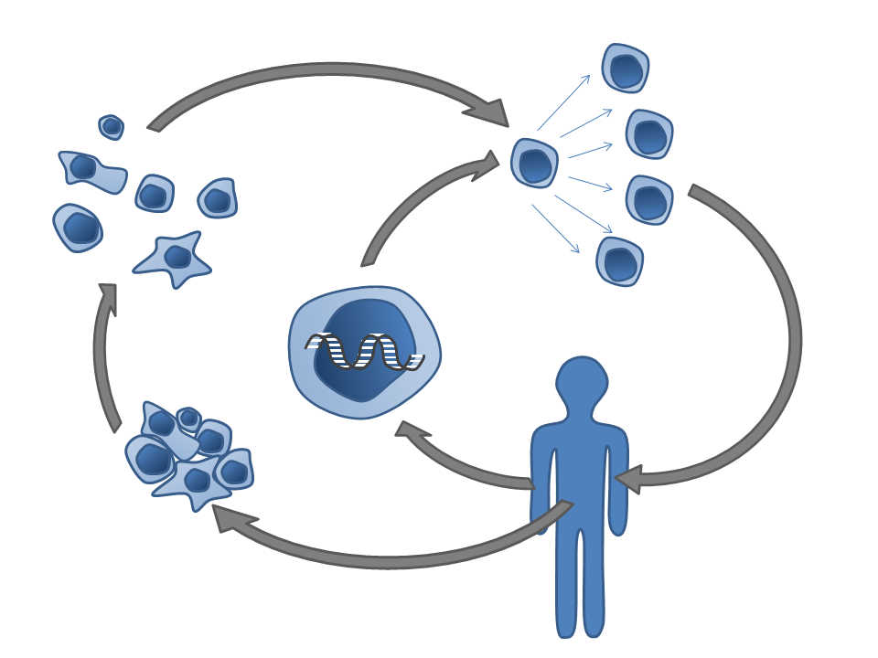 Cancer specific T-cells can be obtained by fragmentation and isolation of tumour infiltrating lymphocytes, or by genetically engineering cells from peripheral blood. The cells are activated and grown prior to transfusion into the recipient (tumour bearer)